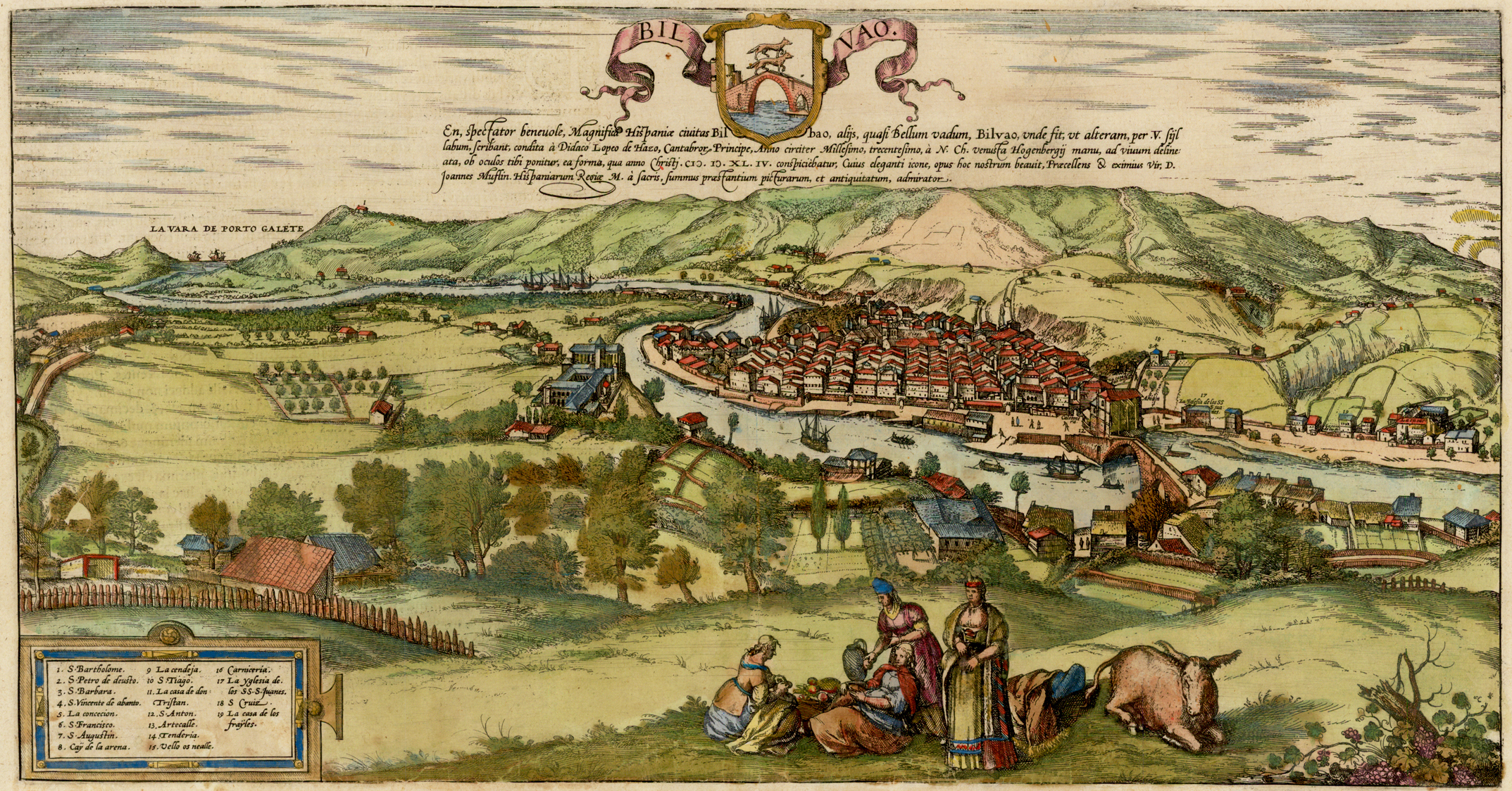 Bilbao (Spain) in the year 1575.